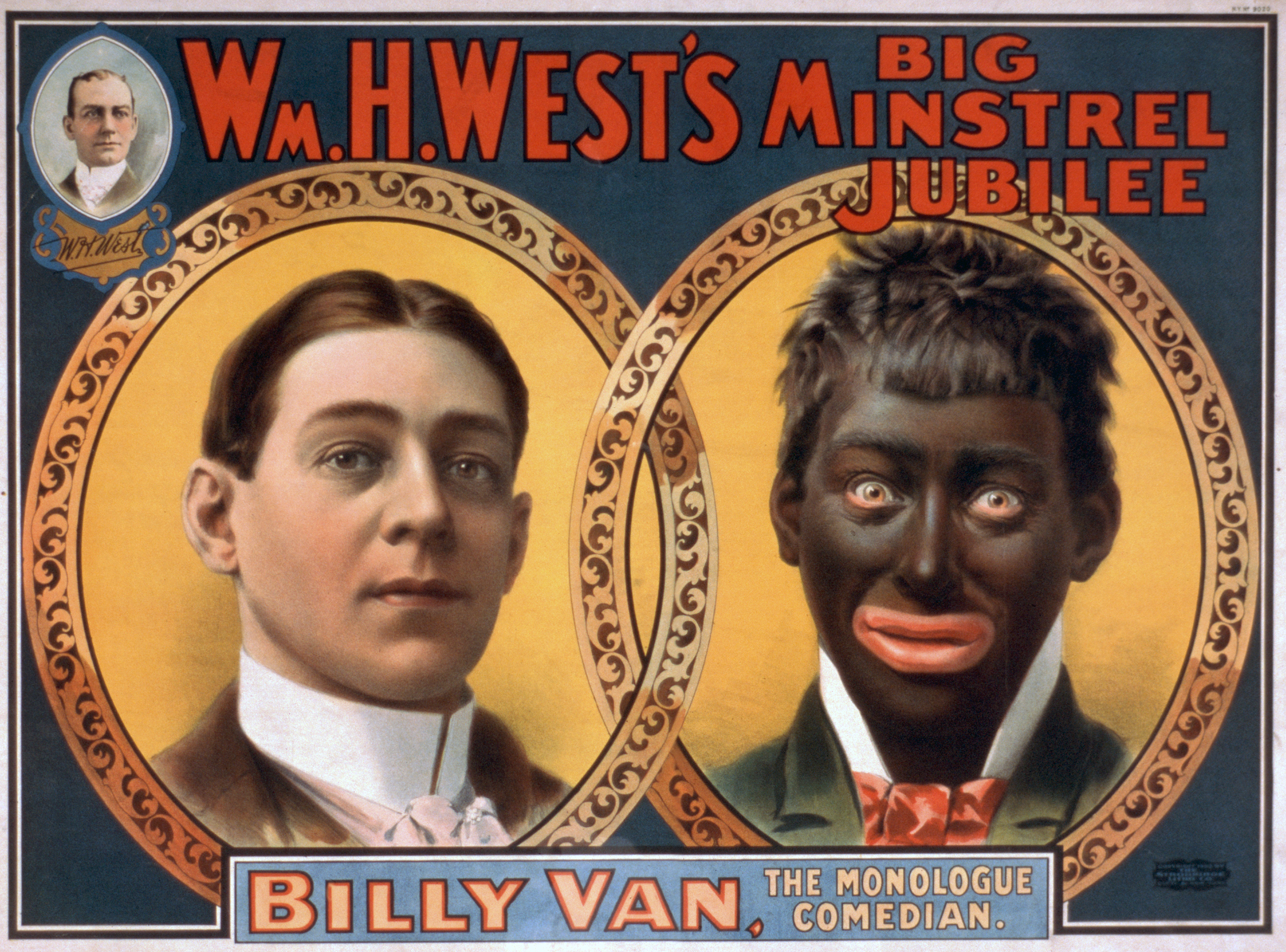 Caption: Billy Van, the monologue comedian. TITLE: Wm. H. West's Big Minstrel Jubilee CALL NUMBER: POS - MIN - .W48, no. 35 (C size) [P&P] REPRODUCTION NUMBER: LC-USZC4-5698 (color film copy transparency) LC-USZ62-24132 (b&w film copy neg.) MEDIUM: 1 print (poster) : lithograph, color ; 76 x 101 cm. CREATED/PUBLISHED: Cin'ti ; New York : Strobridge Litho. Co., c1900. CREATOR: Strobridge & Co. Lith. NOTES: Created and "copyright 1900 by The Strobridge Litho Co, Cin'ti & New York." N.Y. no. 9020. SUBJECTS: Van, Billy, 1860-1912--Performances. African Americans--Performances & portrayals. Comedians. Minstrel shows. FORMAT: Portrait prints. Theatrical posters American. Lithographs Color. PART OF: Minstrel Poster Collection (Library of Congress) REPOSITORY: Library of Congress Prints and Photographs Division Washington, D.C. 20540 USA DIGITAL ID: (digital file from intermediary roll copy film) var 1831 CONTROL #: var1994001770/PP